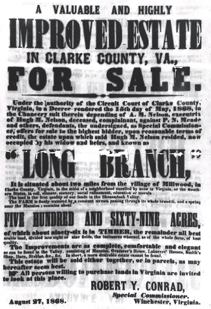 Flyer advertising the public auction of Long Branch Plantation in 1868